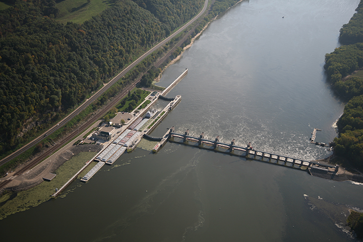 Lock and dam 9